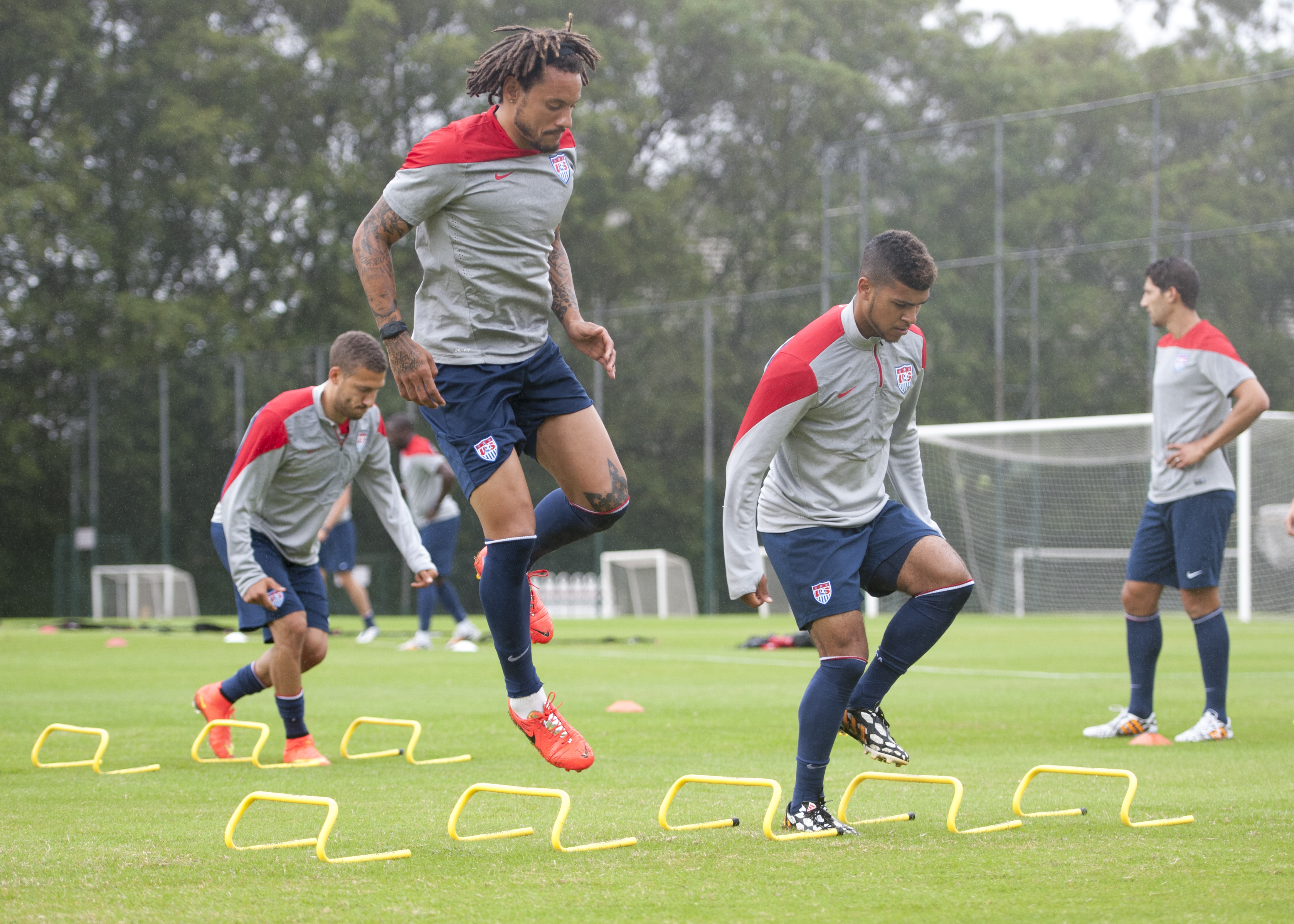 United States defenders Jermaine Jones (left) and DeAndre Yedlin go through warm-ups Sao Paulo FC's training ground in Sao Paulo, Brazil on June 10, 2014.